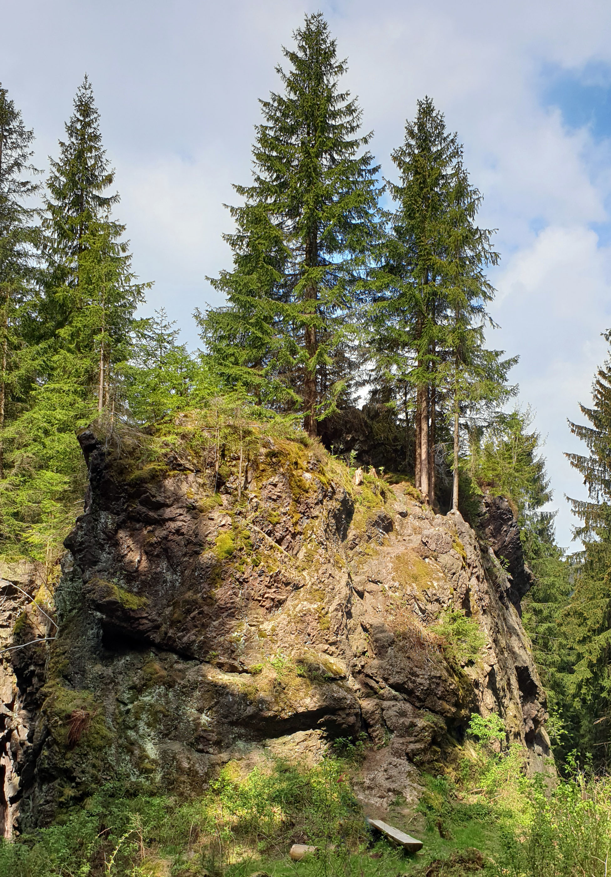 Photo of the rock "Blauer Stein", west of the Großer Finsterberg on the Rennsteig near Suhl, DE-TH